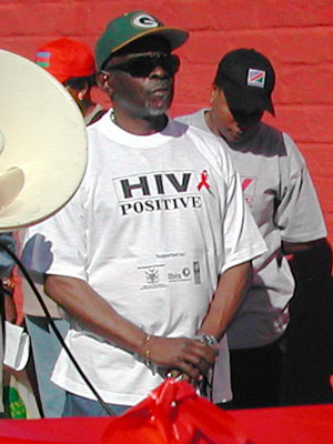 Picture of Nahas Angula, prime minister of Namibia since 21 March 2005.